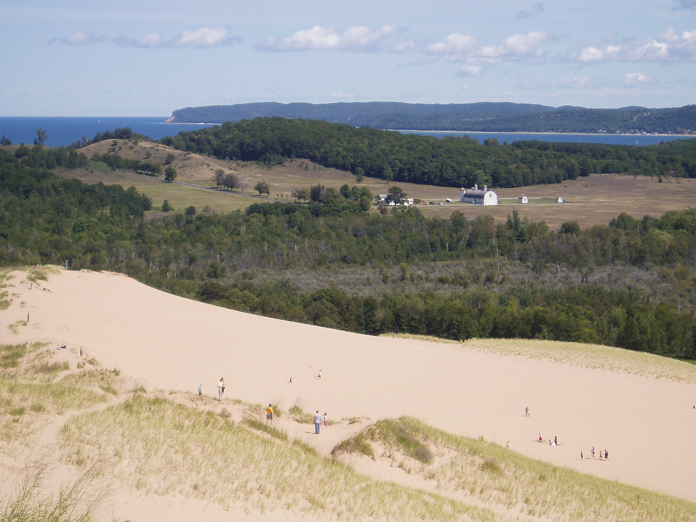 Michigan's Leelanau County. Picture taken near Glen Lake, August 2004. H.G. Judd